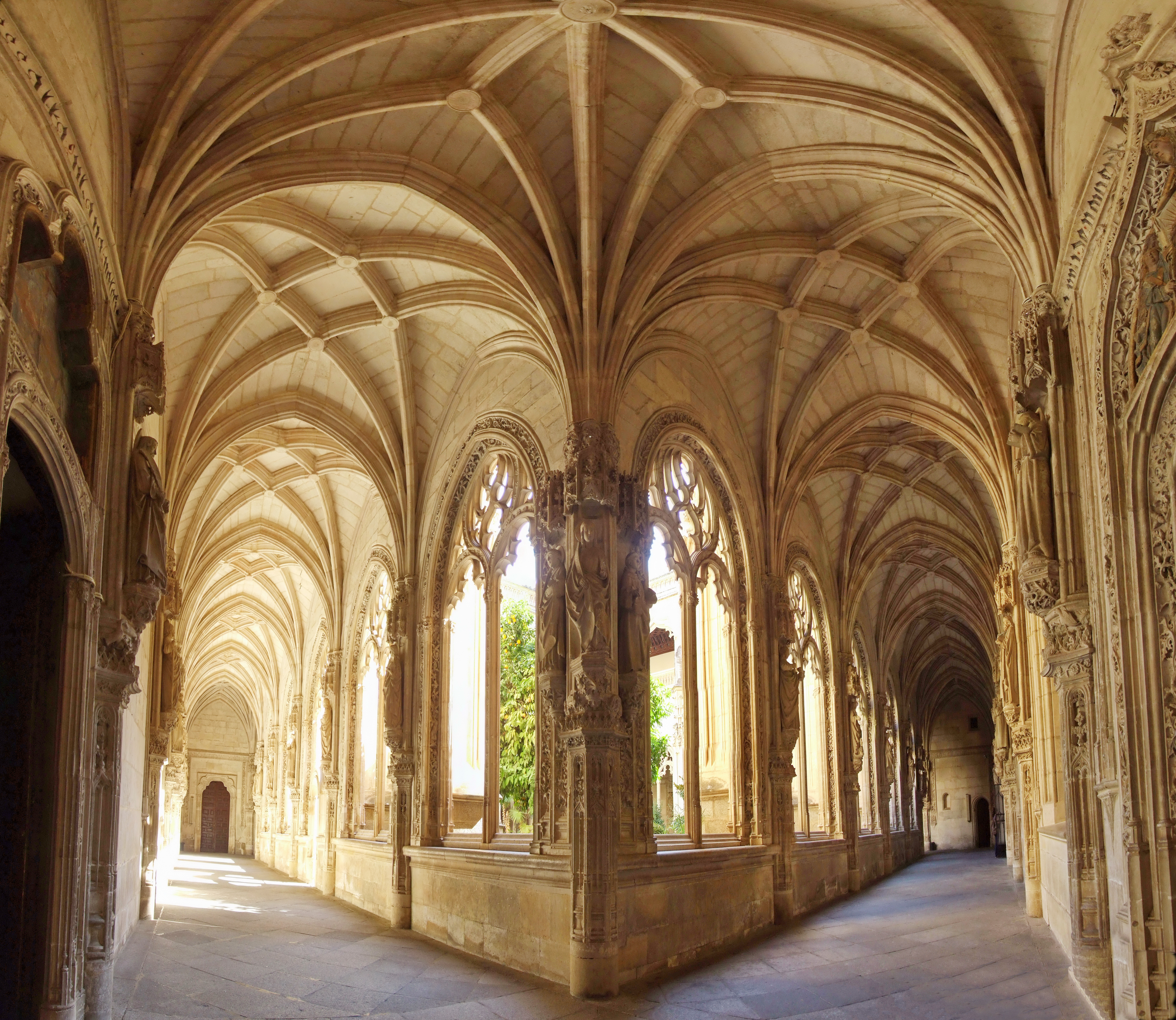 Cloister of Monastery of Saint John of the Kings. Toledo, Spain